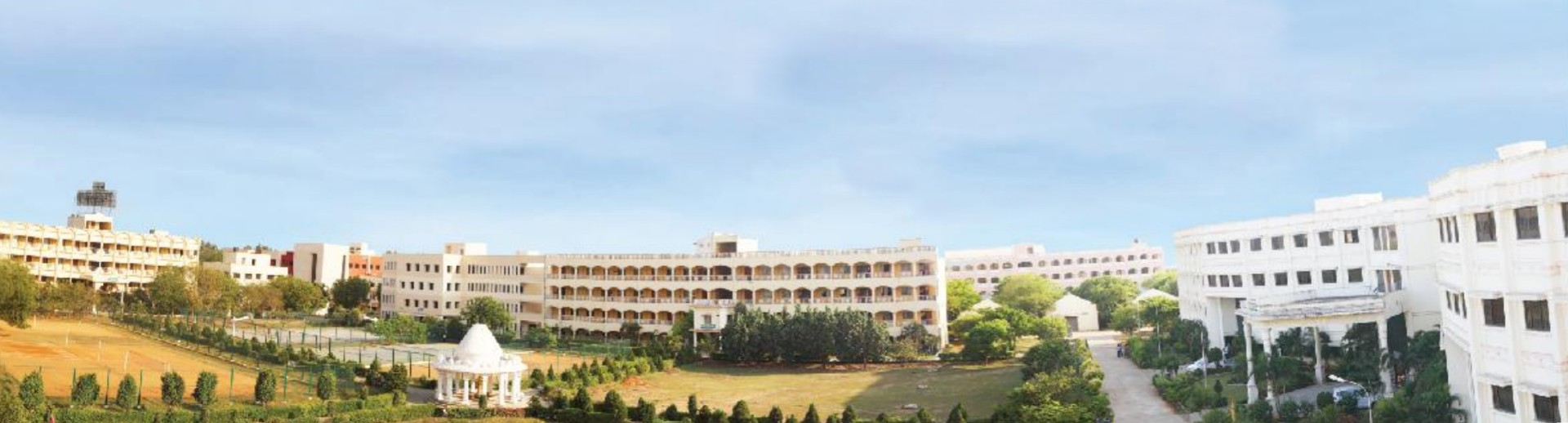 S.A engineering